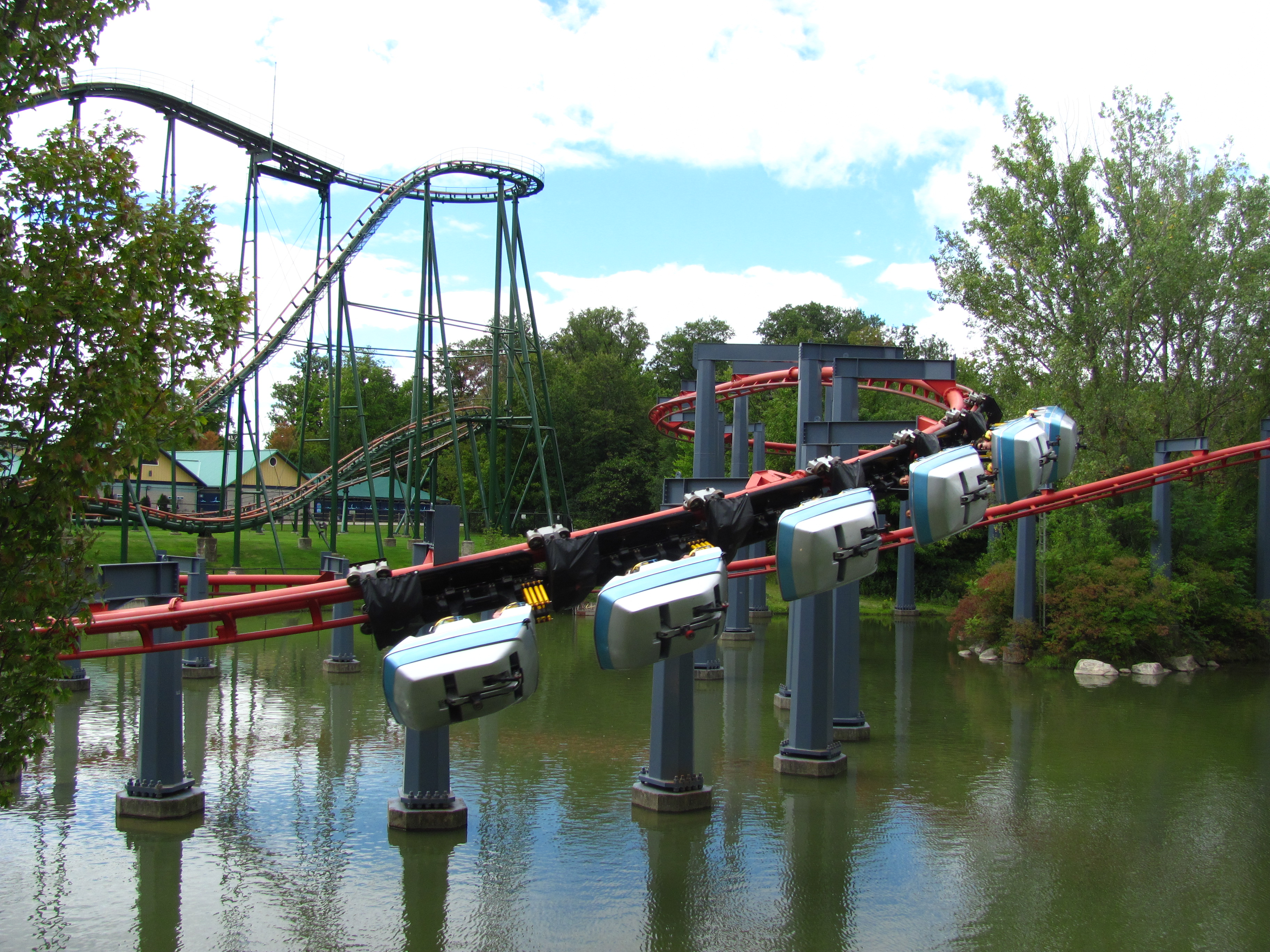 Vortex, a suspended roller coaster, in operation at Canada's Wonderland, in September 2012